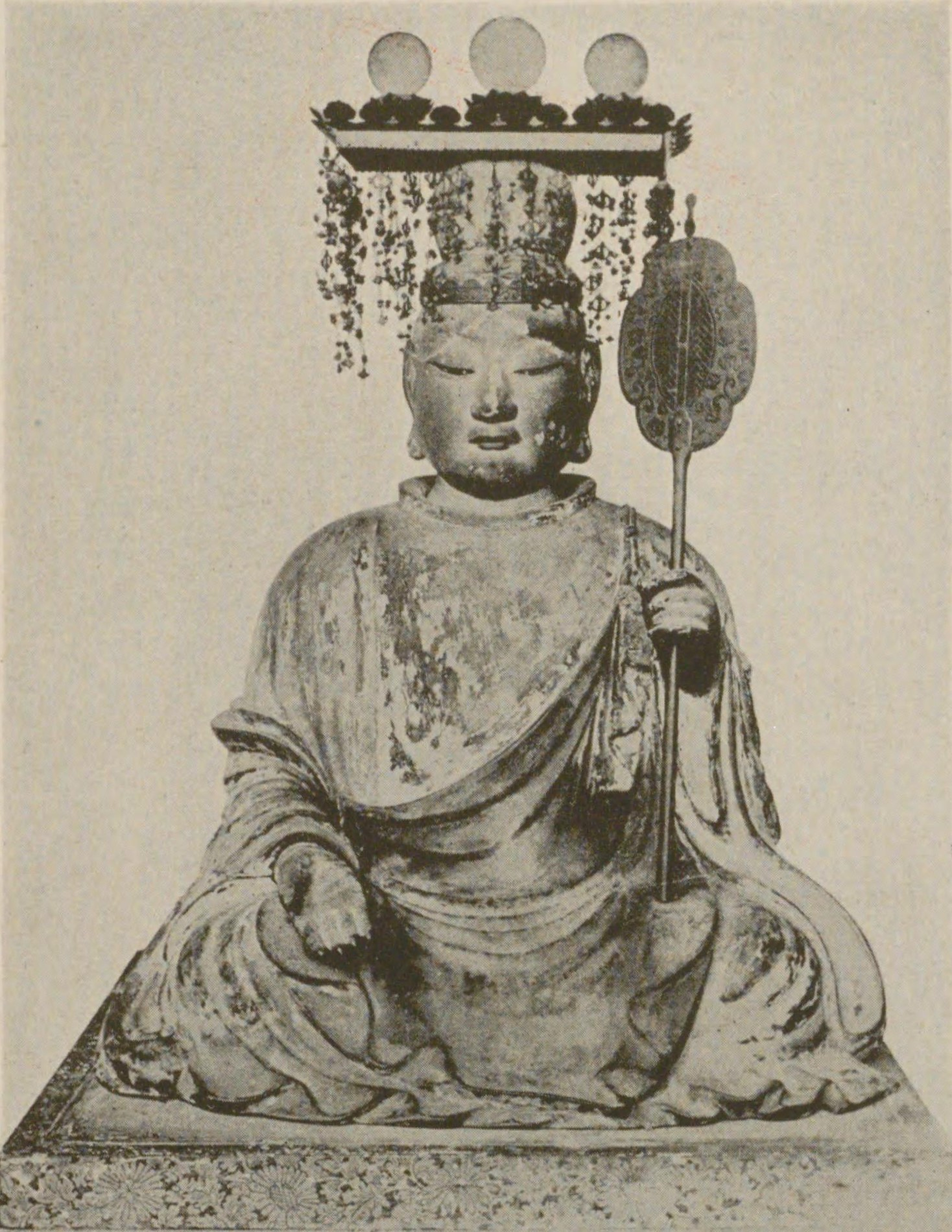 The statue of Prince Shōtoku made in 1515 at Tachibanadera, Asuka, Nara prefecture. An important cultural property of Japan.